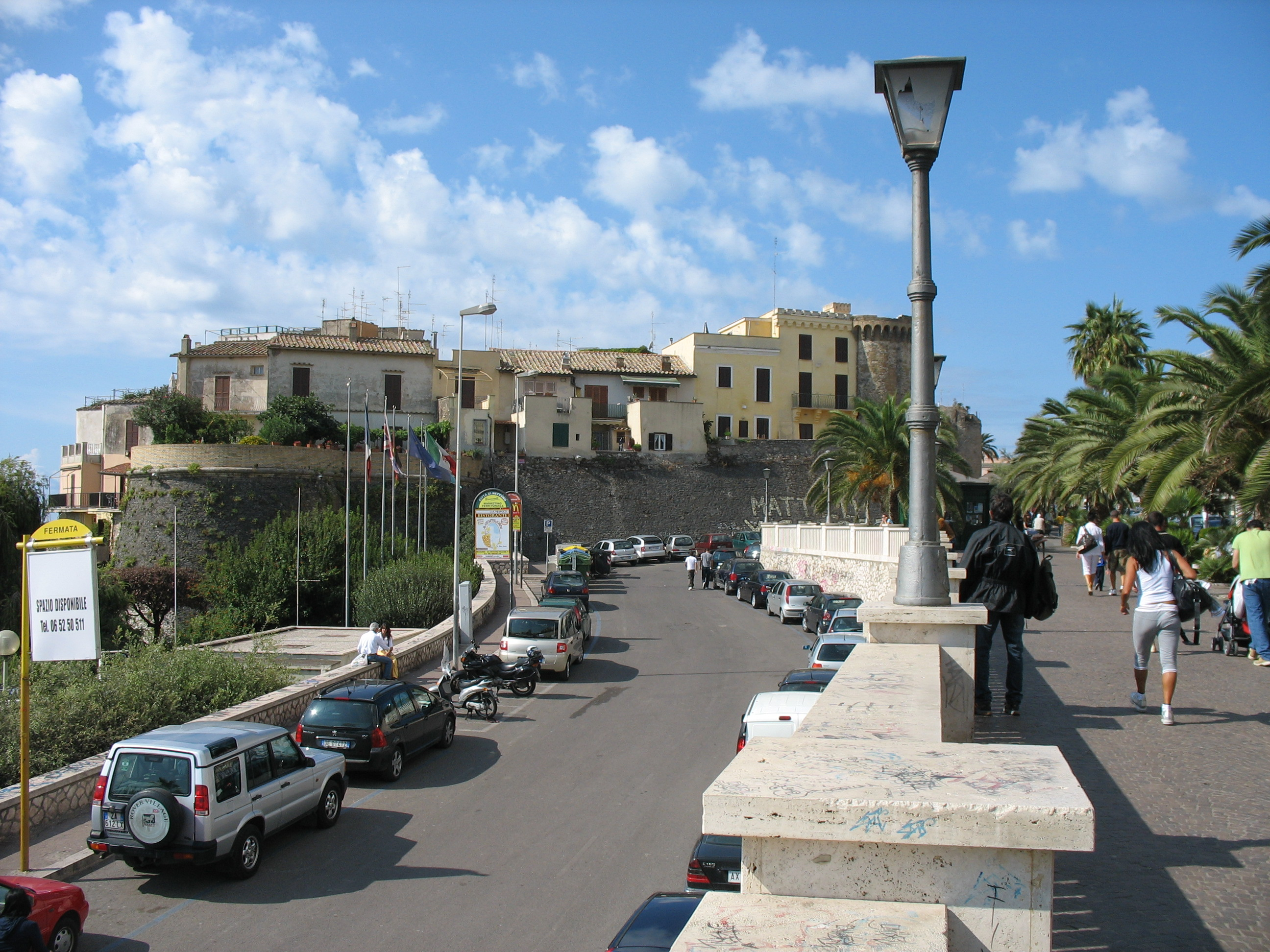 this is a nice shot representing the old part of my own town